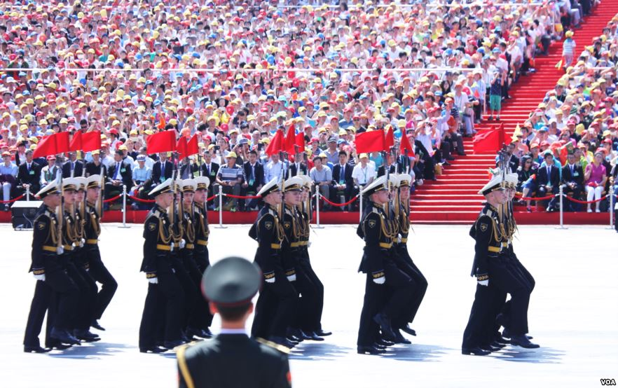 The Foreign Squads at the 2015 China Victory Day parade.